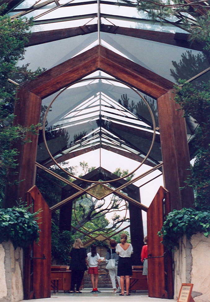 Wayfarers Chapel Rancho Palos Verdes, California